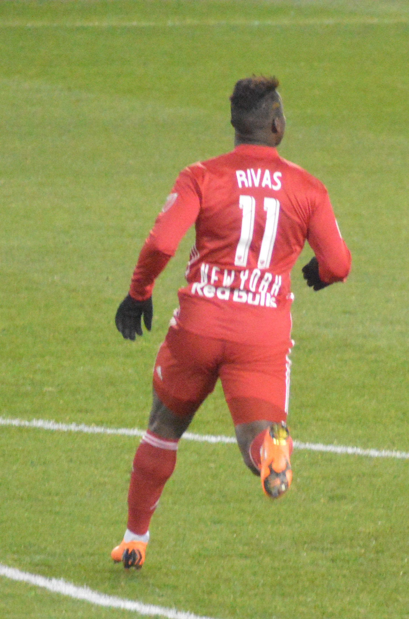 Carlos Rivas playing for New York Red Bulls against Portland Timbers on March 10, 2018, NYRB's MLS season opener.